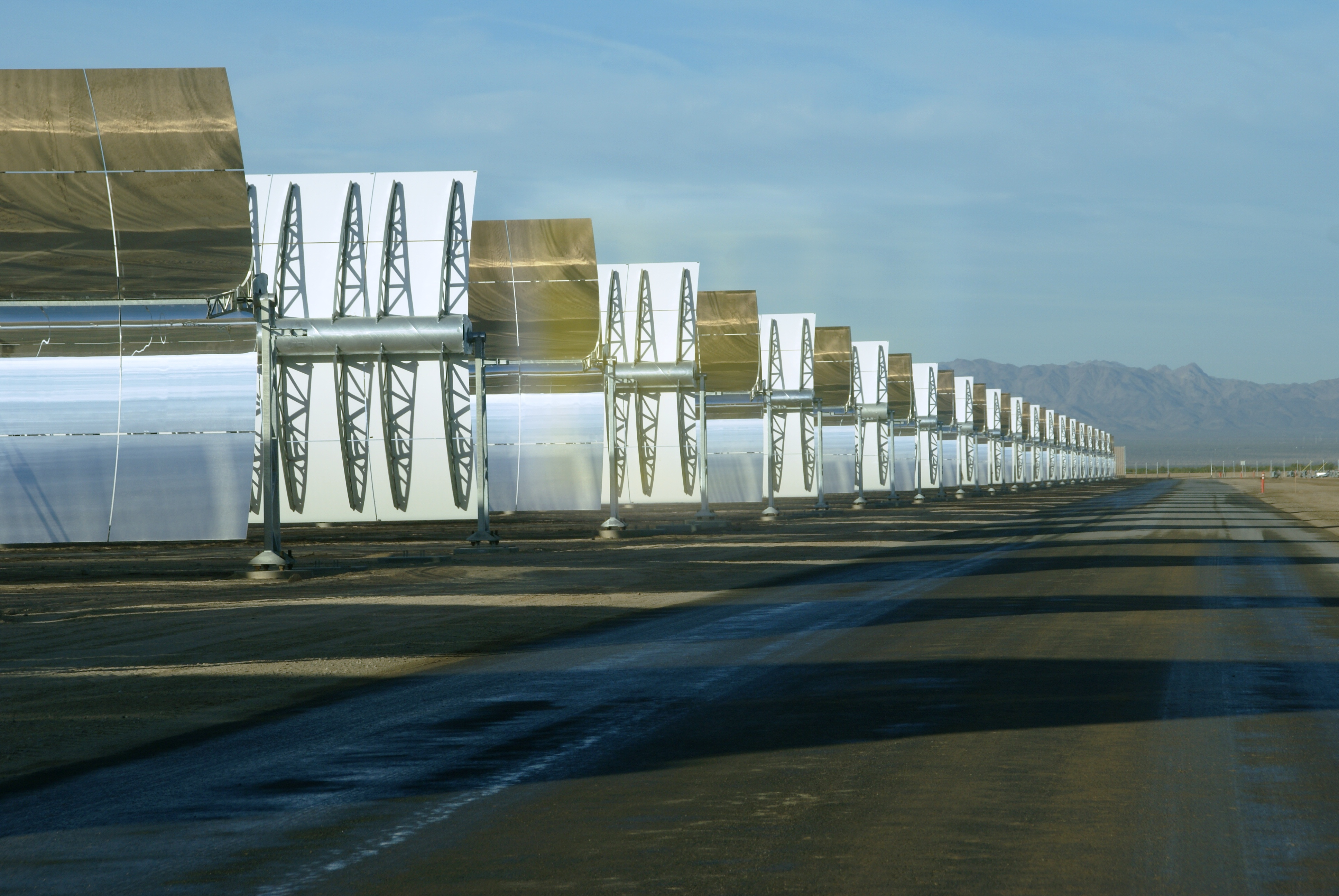 Genesis Solar Energy Project — southeastern Mojave Desert, near Blythe, eastern San Bernardino County, California.